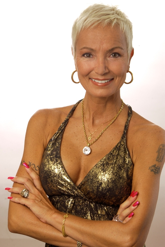 Marietta Meade